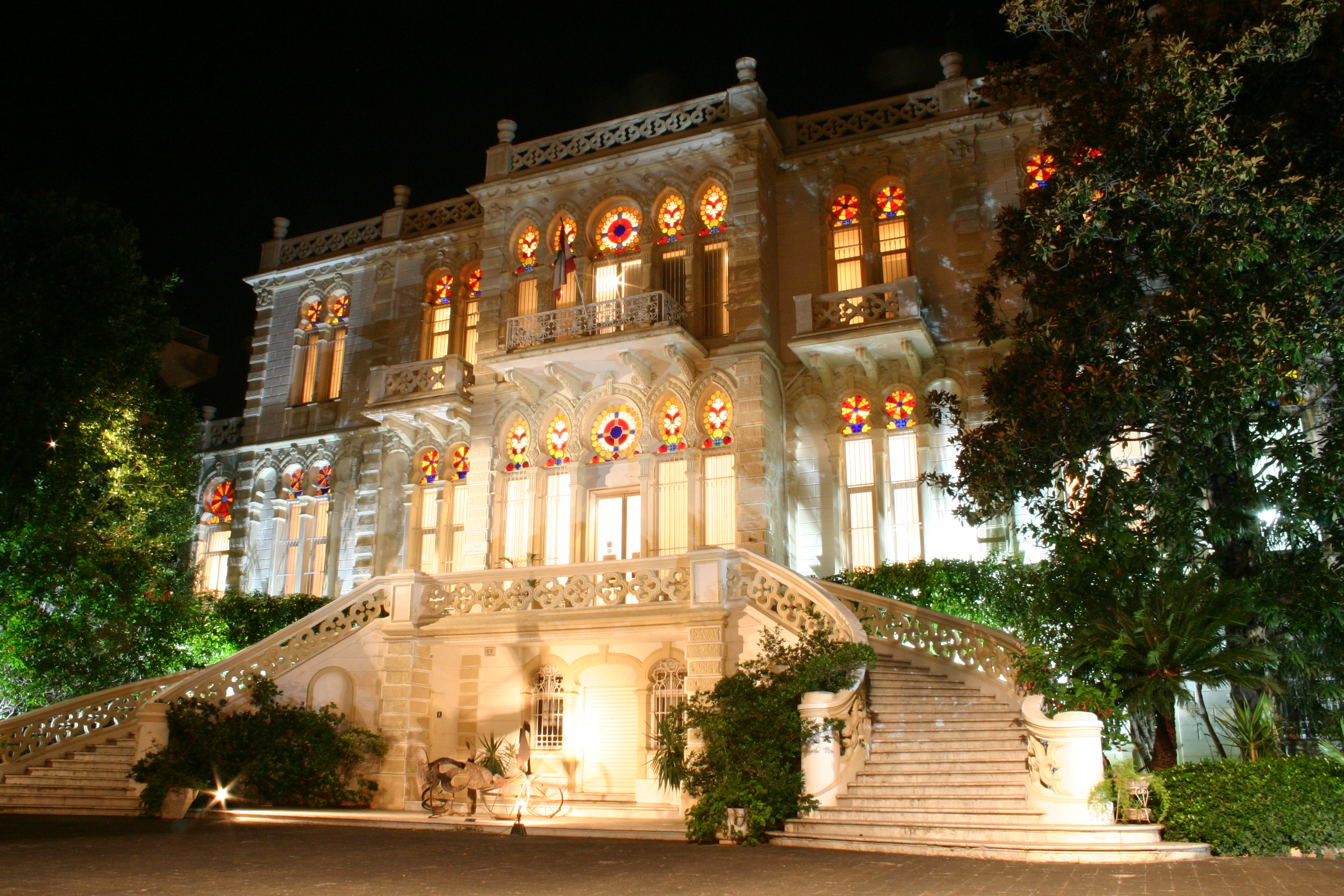 Sursock Museum, Beirut, Lebanon. Photo by Bertil Videt